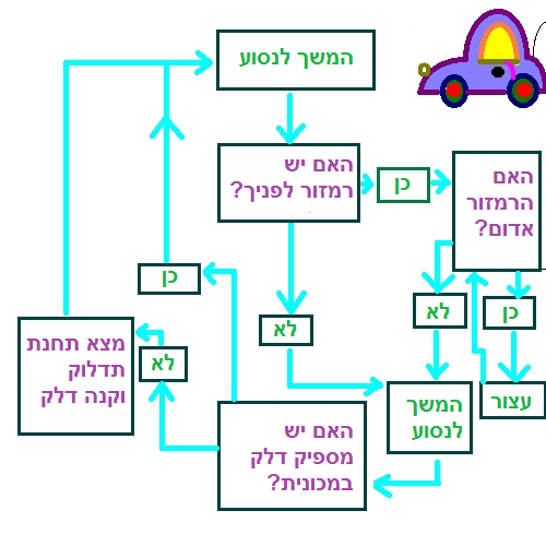 Driving across town to reach a specific goal can be modeled using a flowchart like this one. It is a constant mental process of adjustment; if a stoplight is red, one must stop; if gas is needed, the tank must be re-filled. The ideal situation is when a human is making intelligent adjustments based on reality while keeping the longer-term goal in view. Source of diagram: here (see public domain declaration at top). Questions: write me at my Wikipedia talk page or email me at